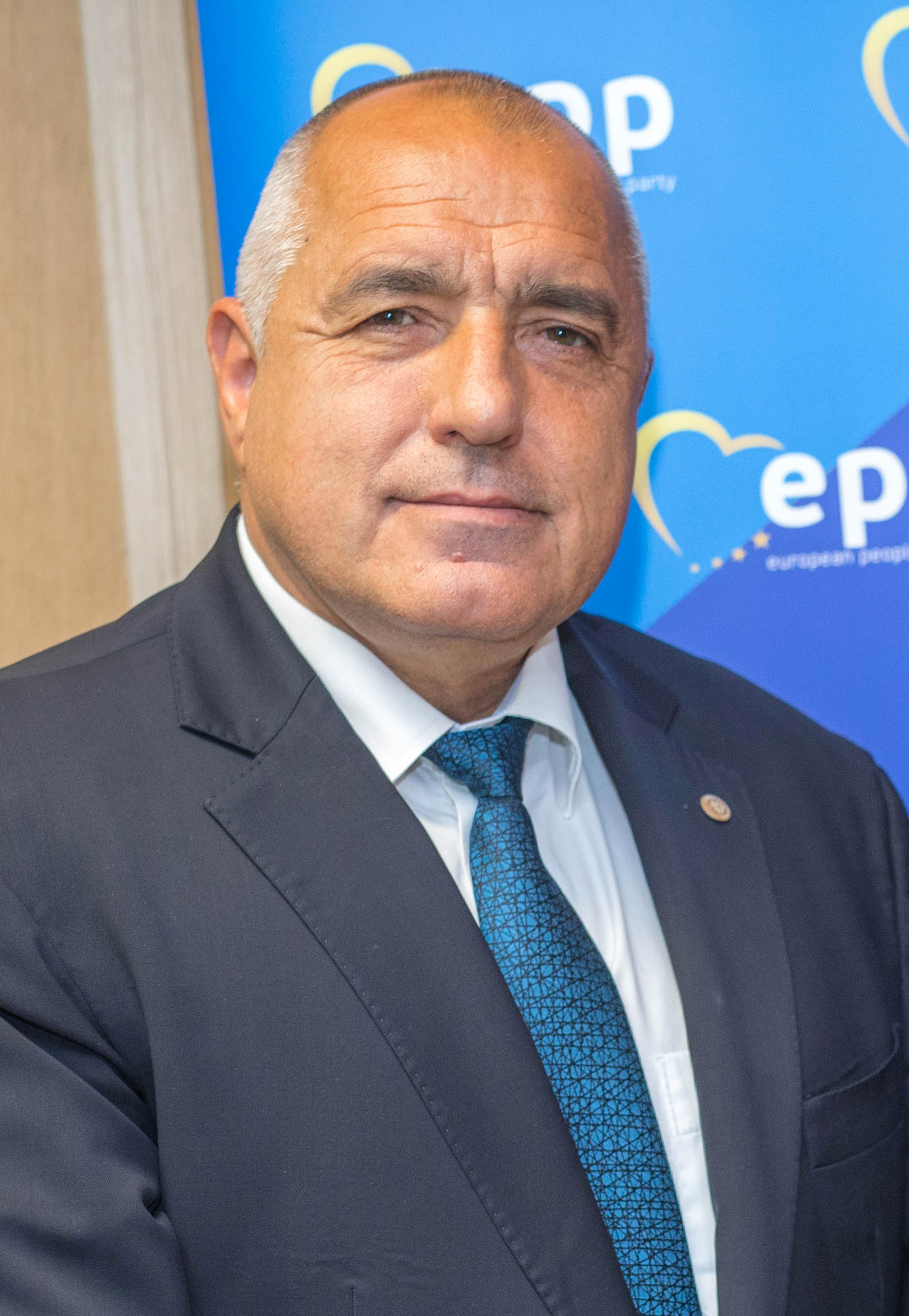 Boyko Borissov at EPP Summit, Sibiu, May 2019